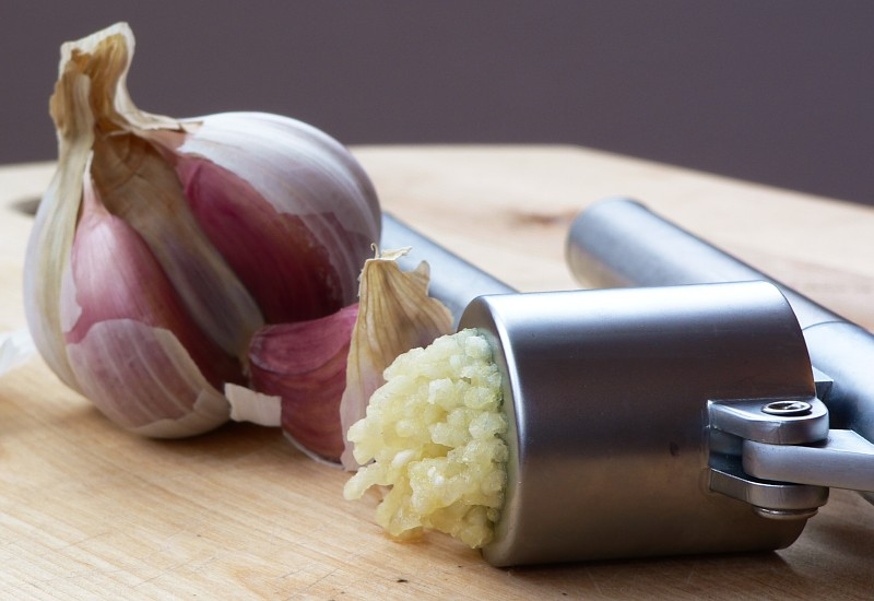 An Ikea garlic press, with pressed garlic.